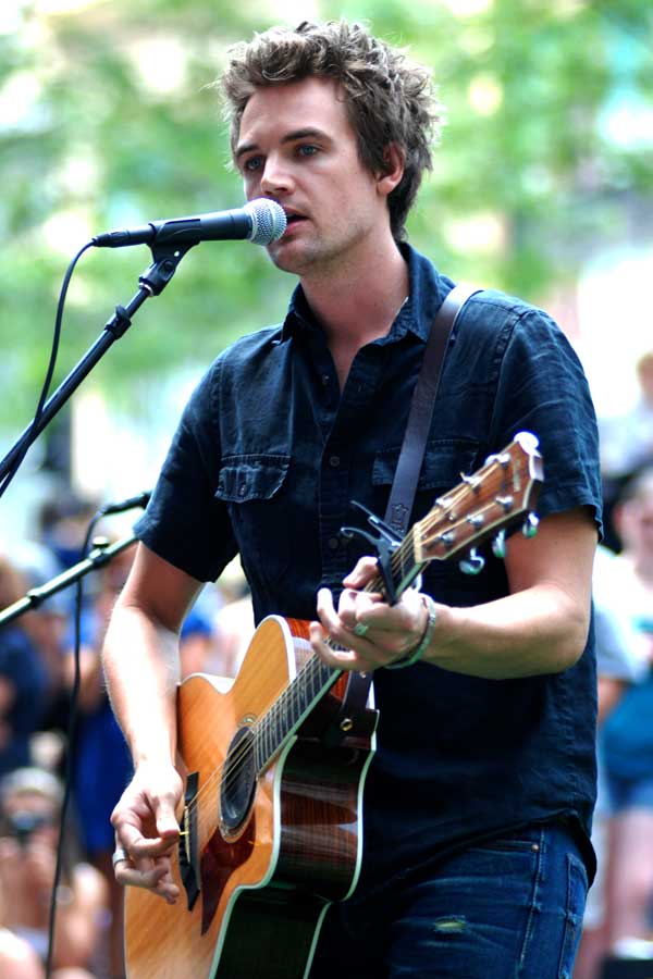 Tyler Hilton performing in Chicago at the Hancock Plaza on June 25, 2010. Photo by Adam Bielawski